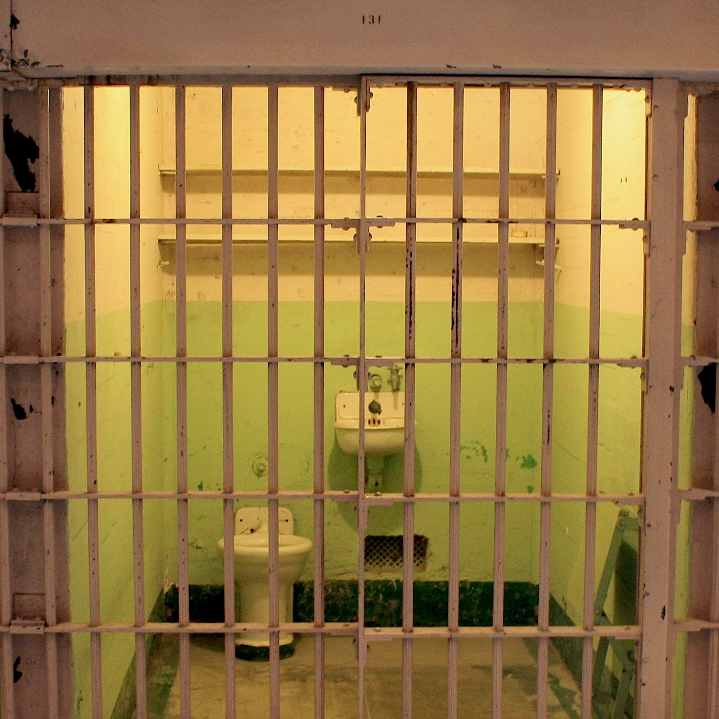 Cell of a prison on Alcatraz Island, San Francisco Bay, USA